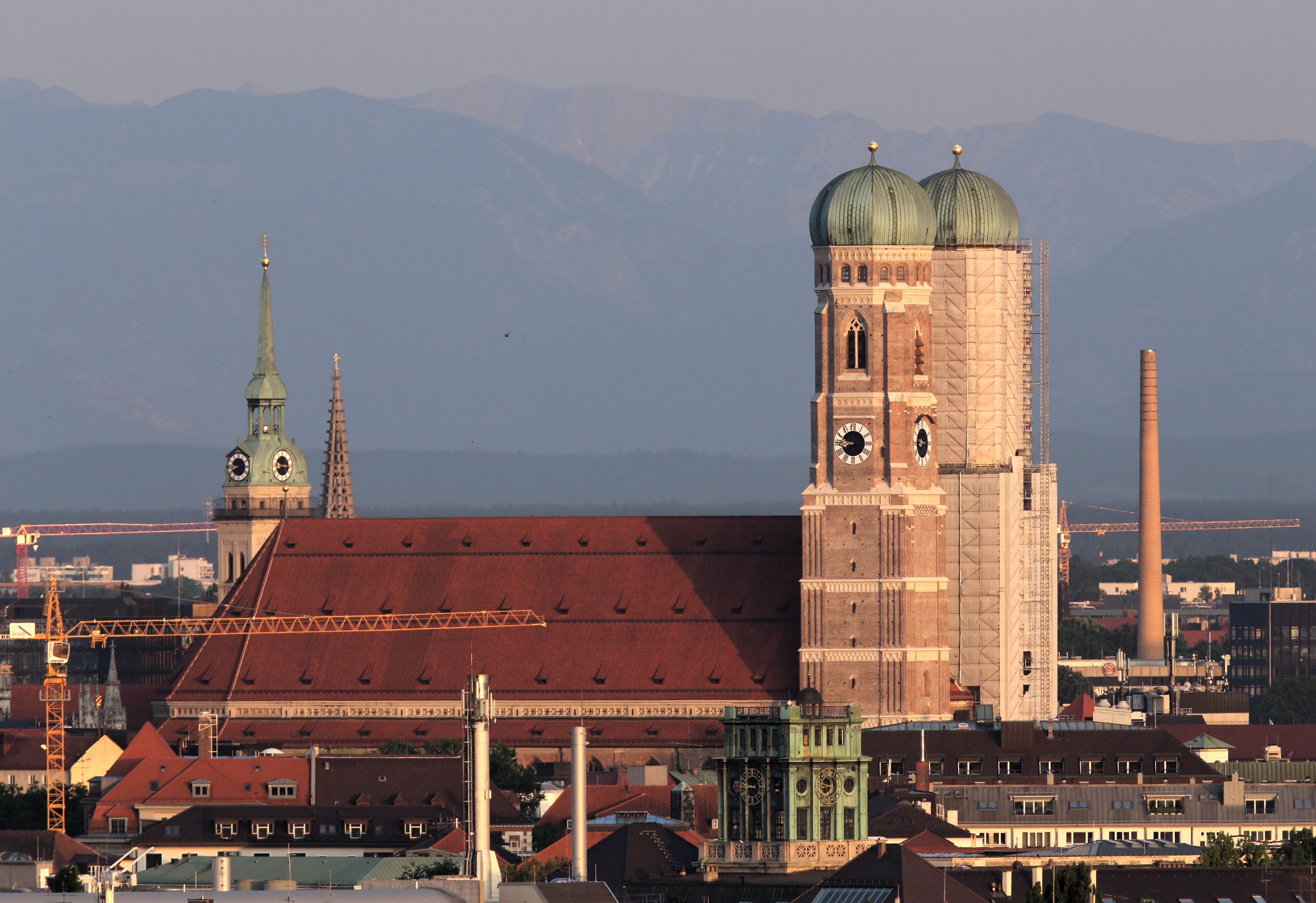 Frauenkirche in München vom Olympiaberg aus fotografiert. The making of this work was supported by Wikimedia Austria. For other files made with the support of Wikimedia Austria, please see the category Supported by Wikimedia Österreich.